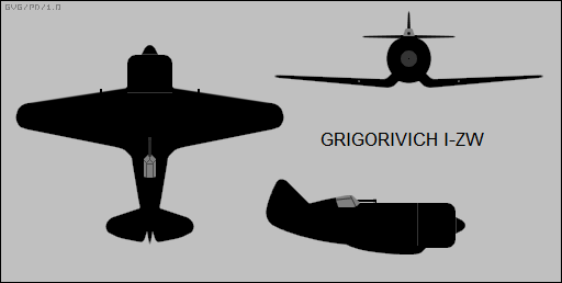 3-view silhouettes of the Grigorovich I-ZW parasite fighter